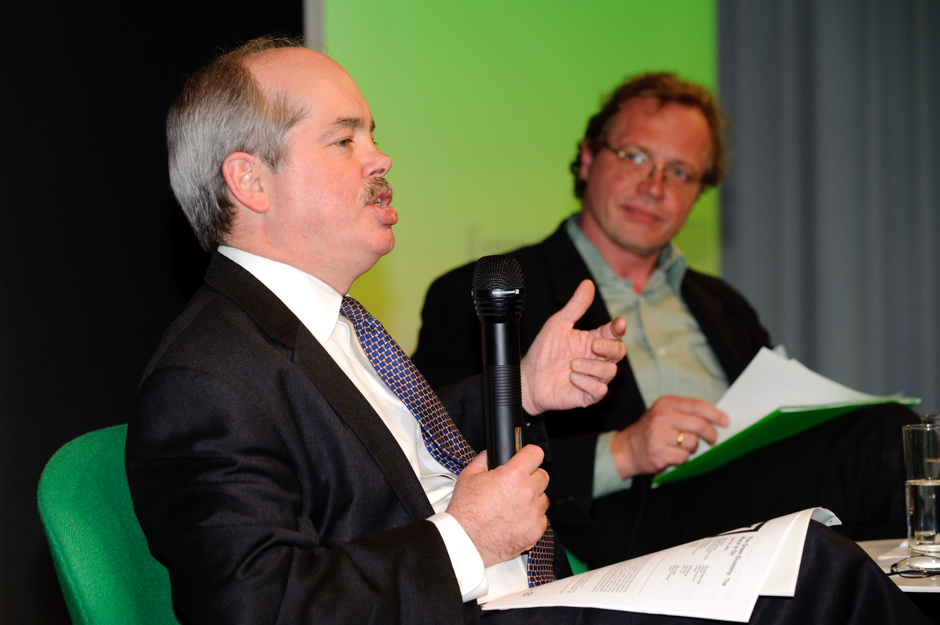 Foto: Stephan Röhl